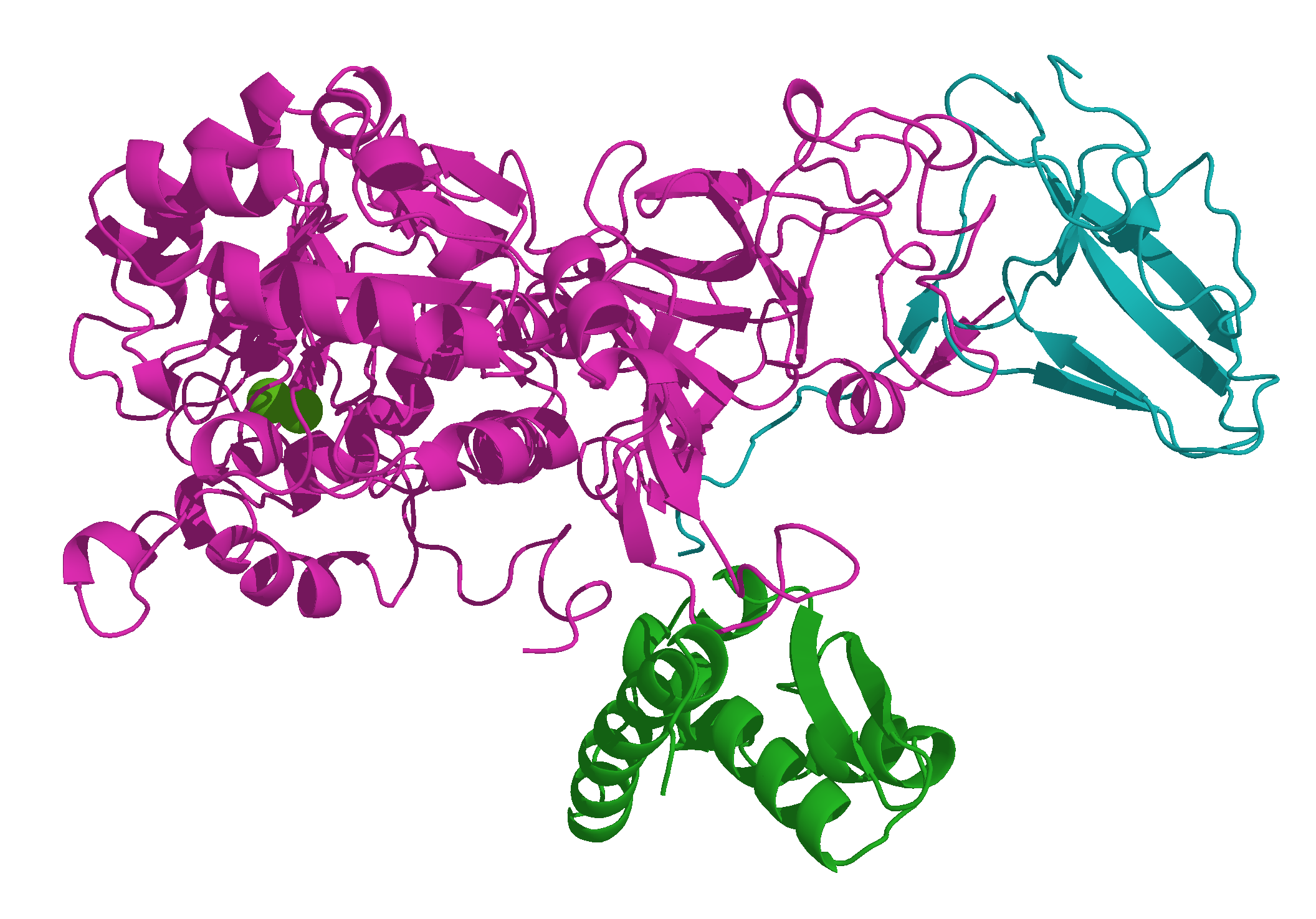 3d ribbon model of urease from Klebsiella aerogenes α + β + γ subunits and 2 Ni2+ ions (green) after PDB 2KAU. Ref.: E.Jabri et al. (1995). The crystal structure of urease from Klebsiella aerogenes.. Science, 268, 998. PMID 7754395